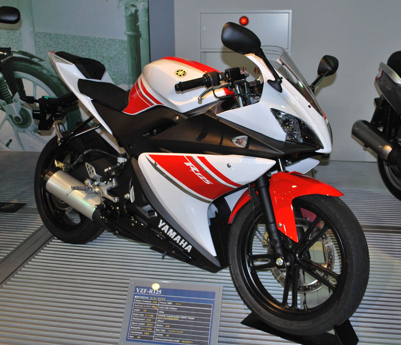 Yamaha YZF-R125